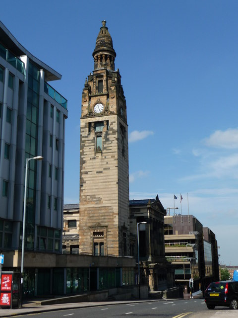 St. Vincent Street Church, Glasgow Alexander (Greek) Thomson's wonderful St Vincent Street Church